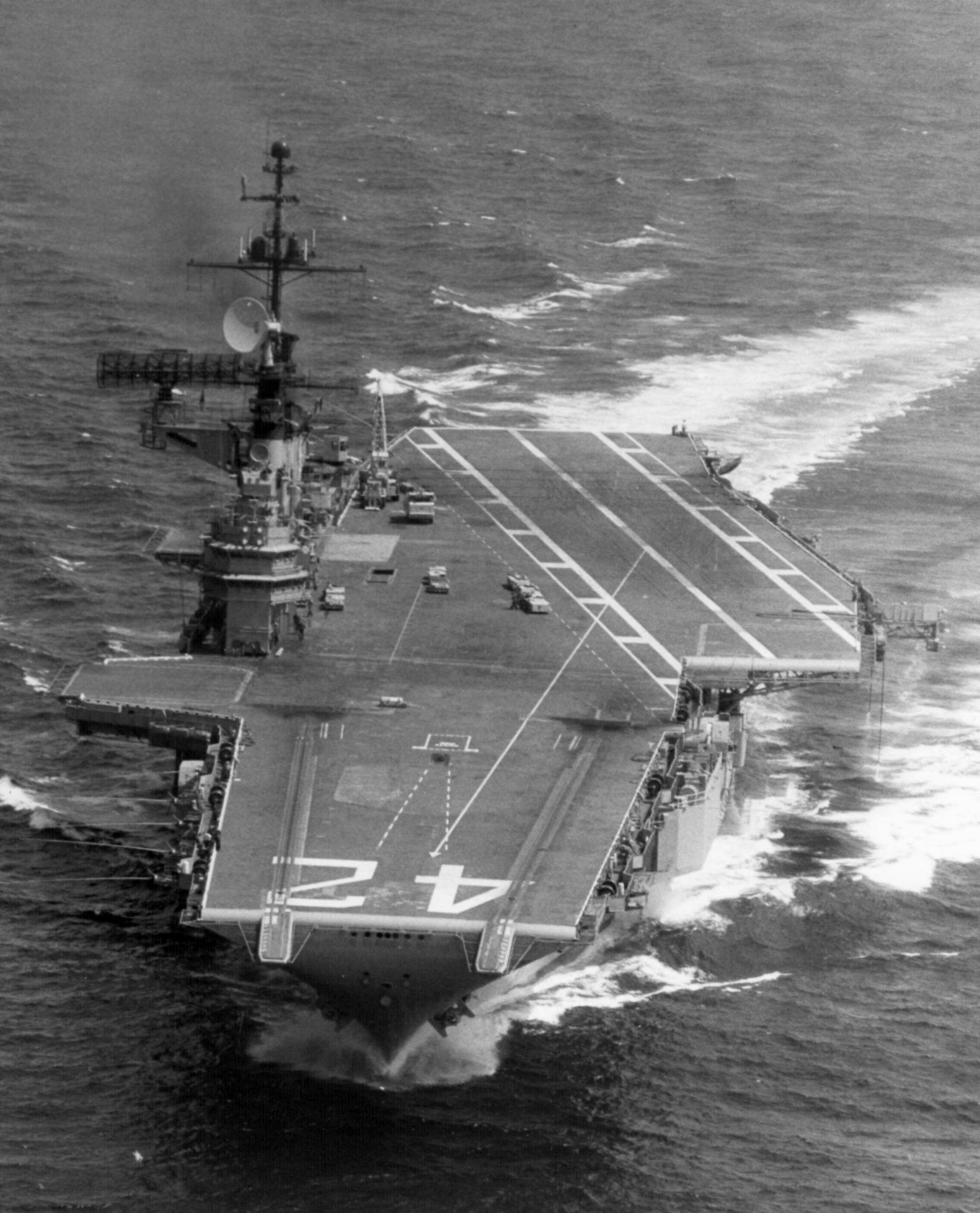 The U.S. Navy aircraft carrier USS Franklin D. Roosevelt (CVA-42) underway off the Virginia Capes (USA) after completion of her refit in July 1969. Note that her former forward centerline elevator is still clearly visible between the catapults.